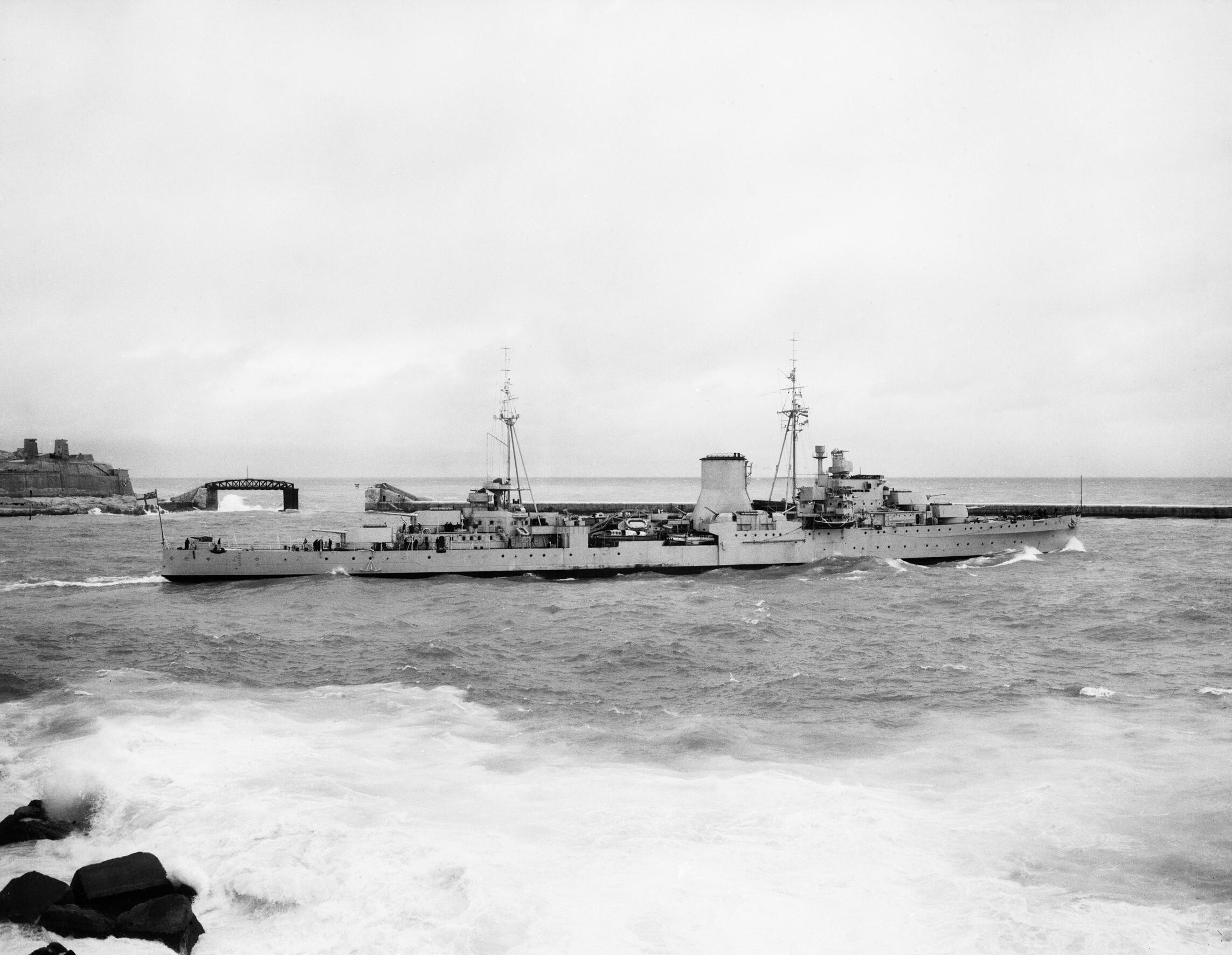 HMS AJAX in Grand Harbour at Valletetta, MALTA, 31 December 1945.